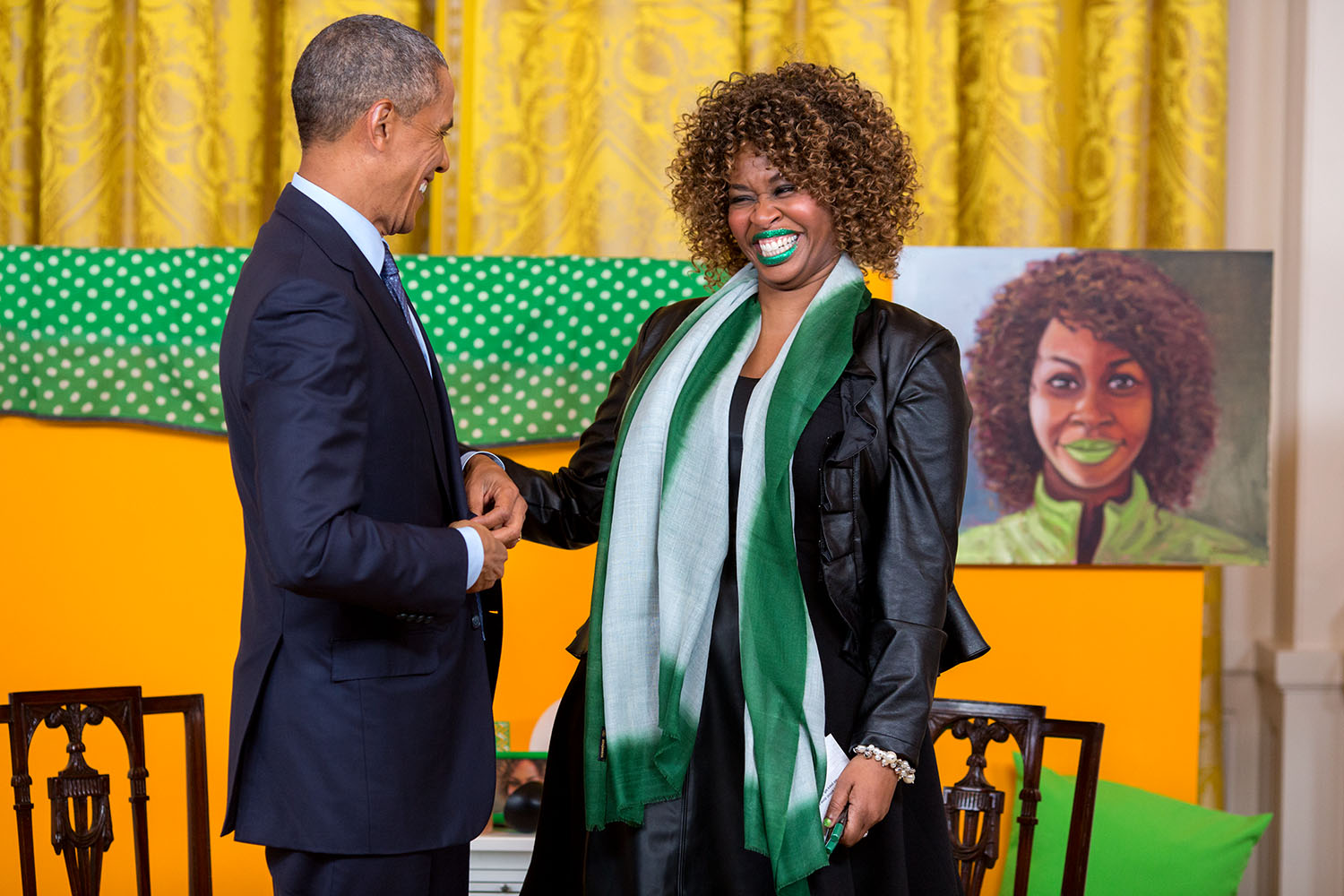 U.S. President Barack Obama greets YouTube content creator GloZell Green in the East Room of the White House, Jan. 22, 2015.